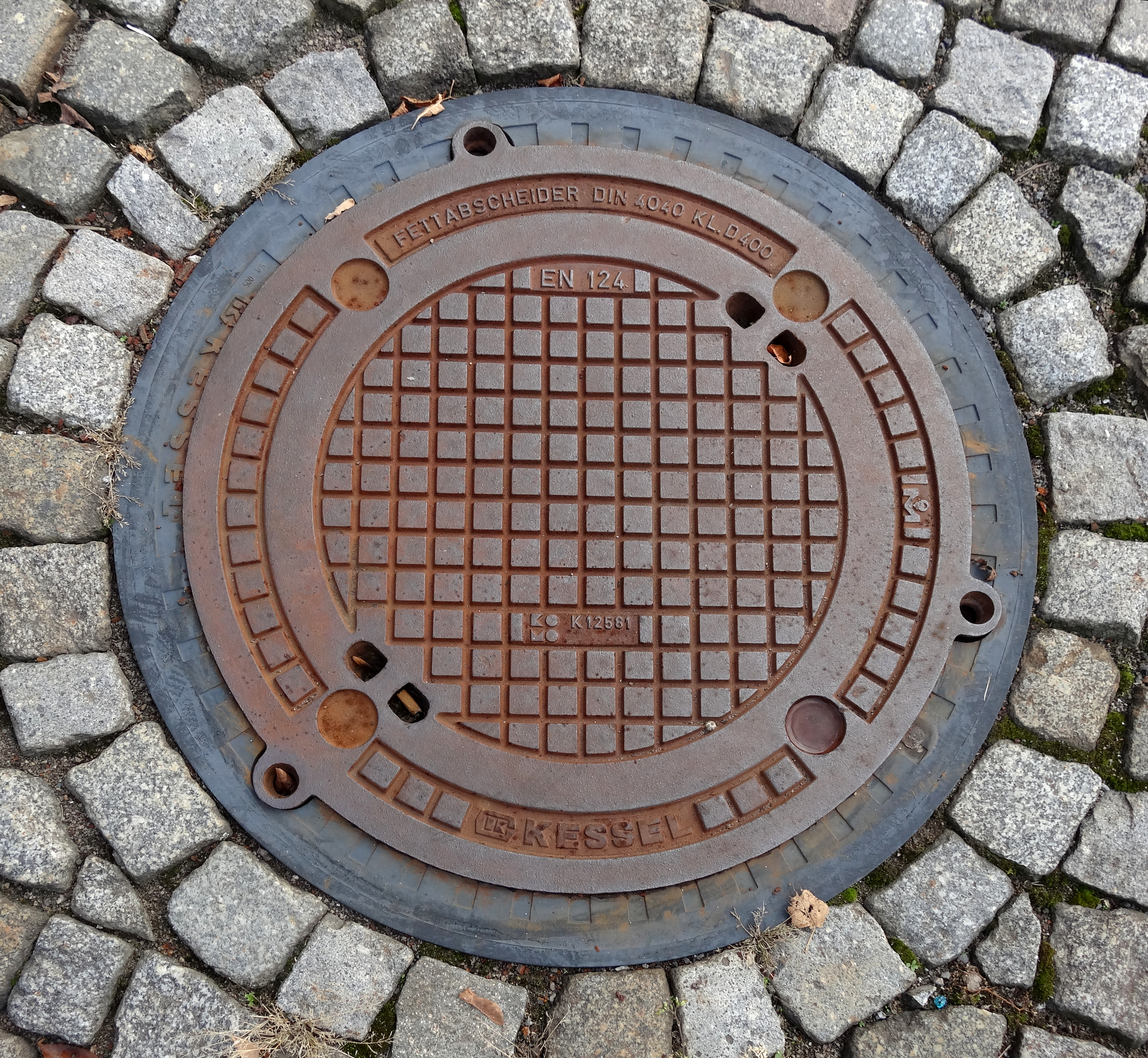 Impressionen der Messe "schriftgut 2015" in Dresden. Unterirdische Fettabscheider auf dem Hof der Messe The making of this document was supported by the Community-Budget of Wikimedia Germany.